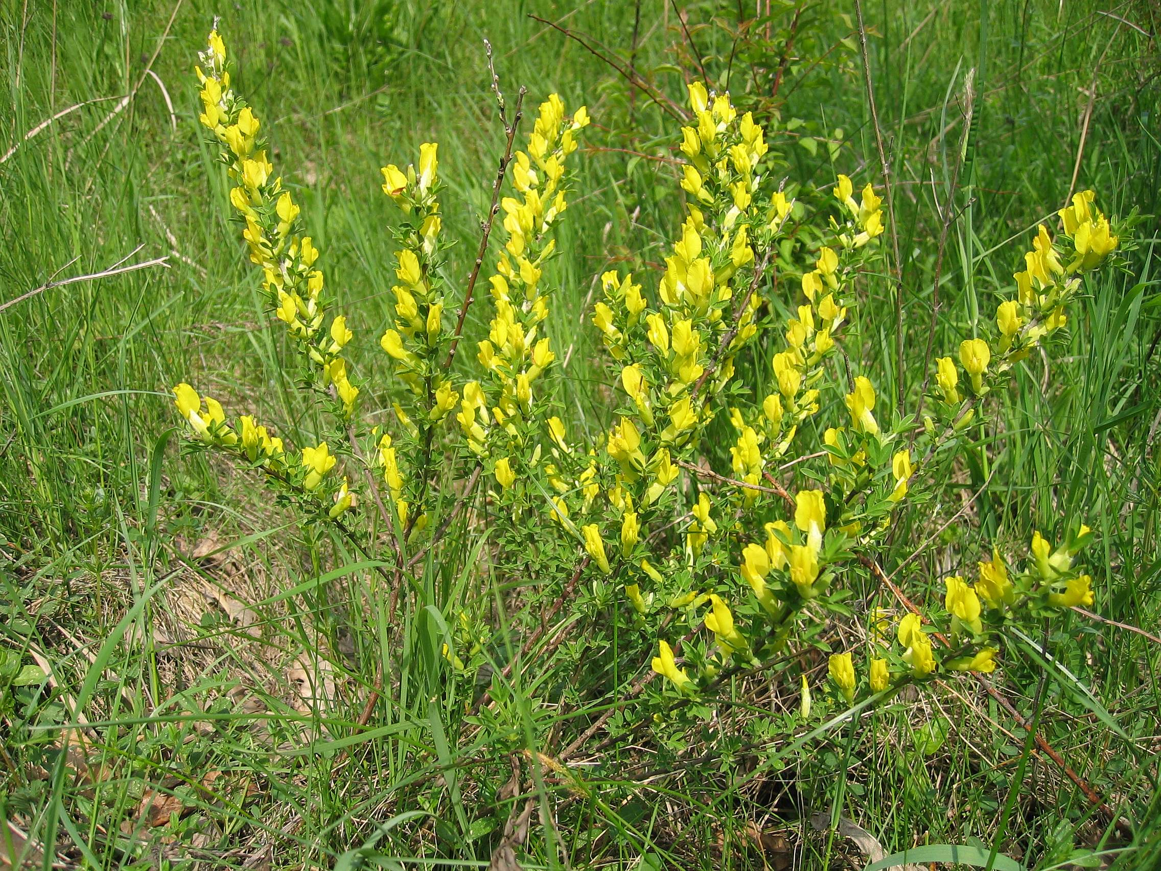 Chamaecytisus ratisbonensis NSG Near Wels, Upper Austria, Austria